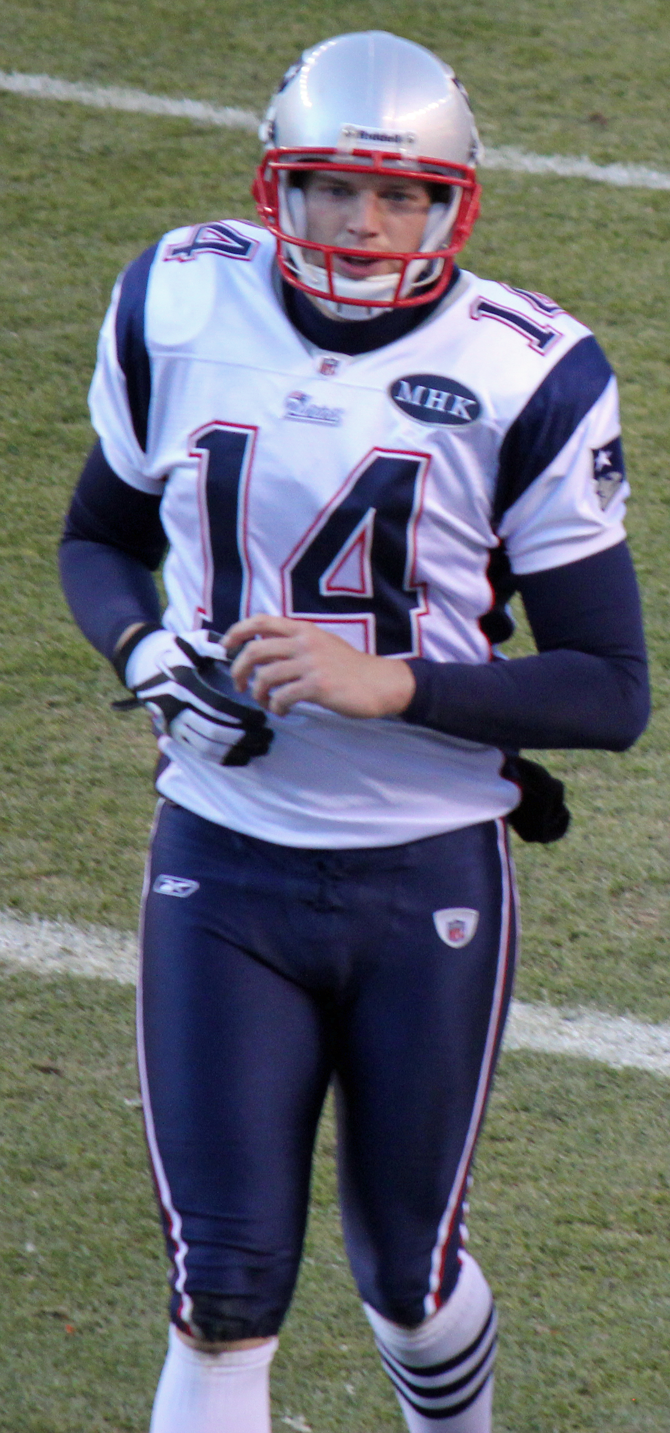 Zoltan Mesko, a player on the National Football League.